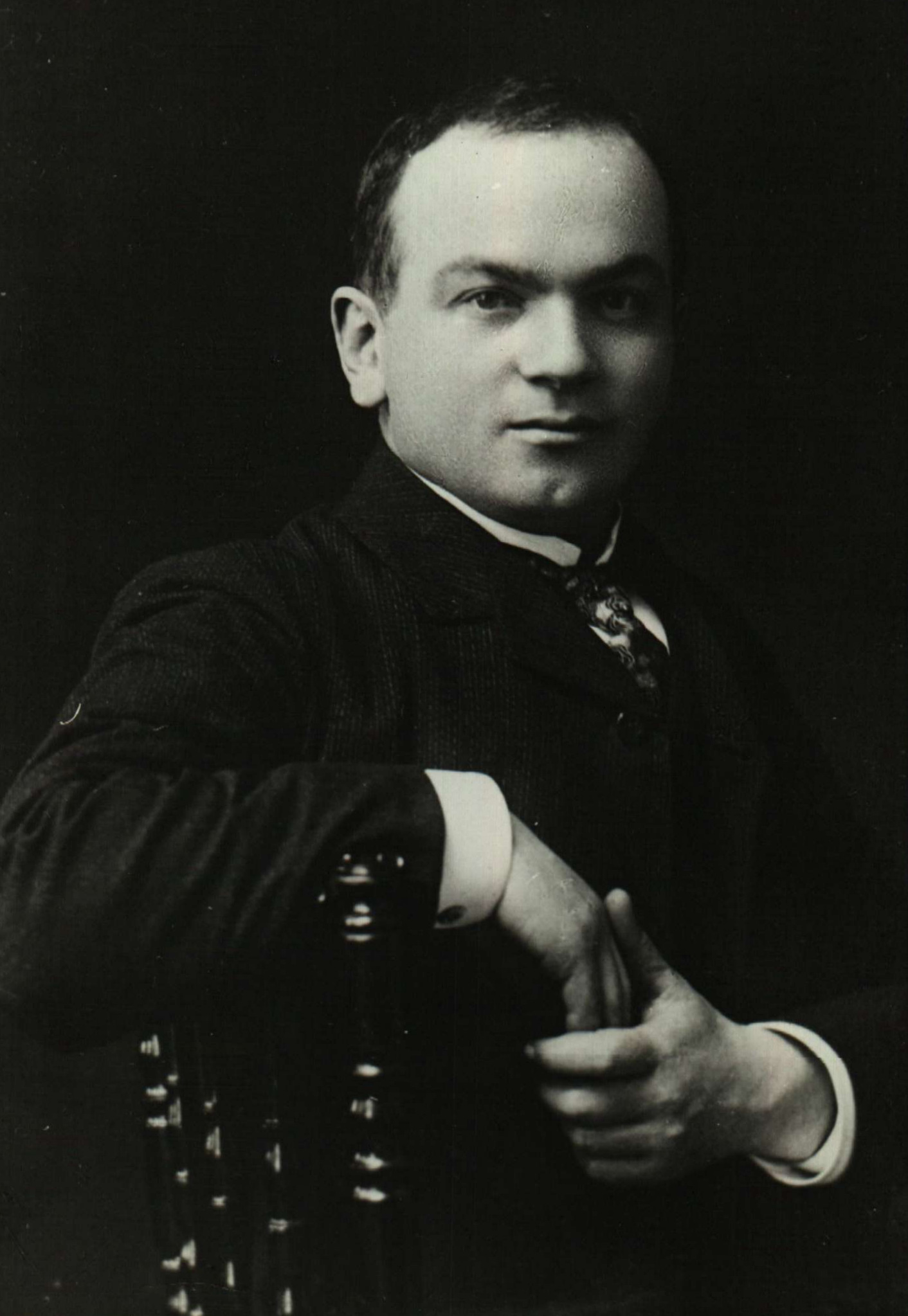 Bulgarian actor Hristo Ganchev (1877-1912)